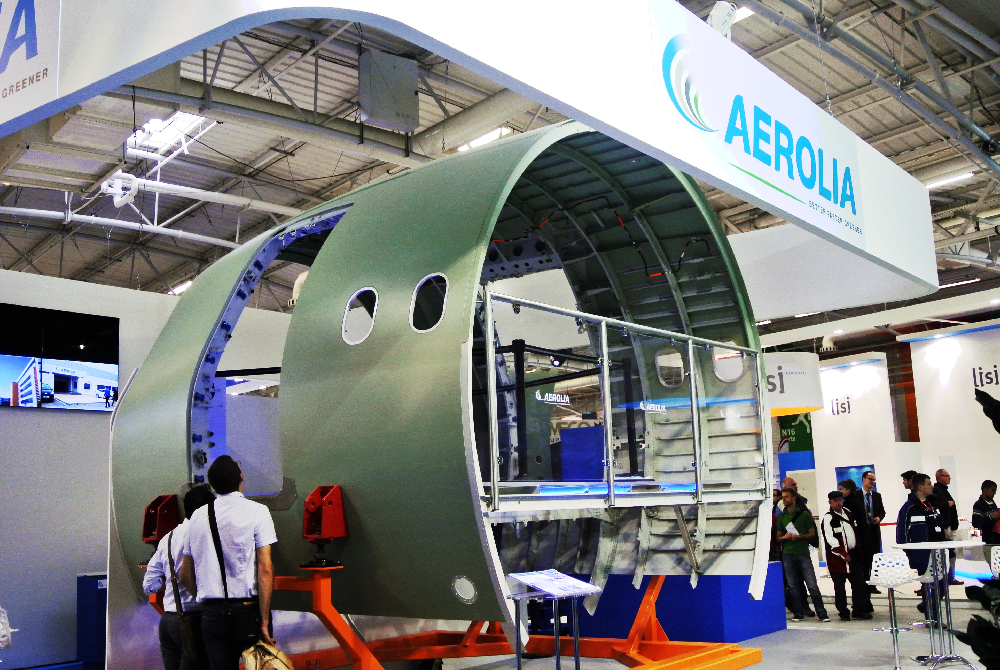 Photography taken at the Paris Air Show 2013